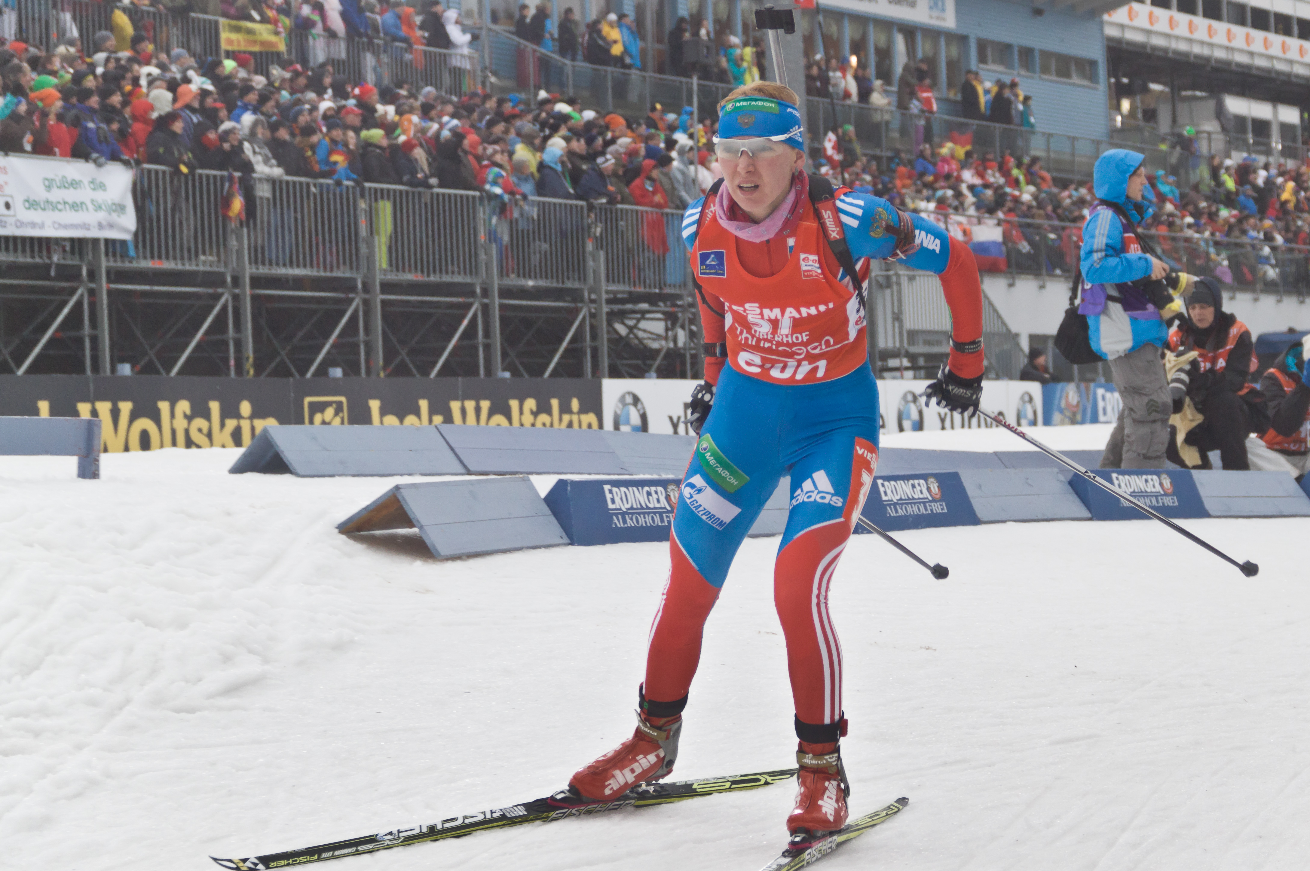 Russian biathlete Ekaterina Glazyrina in the world cup pursuit race in Oberhof.